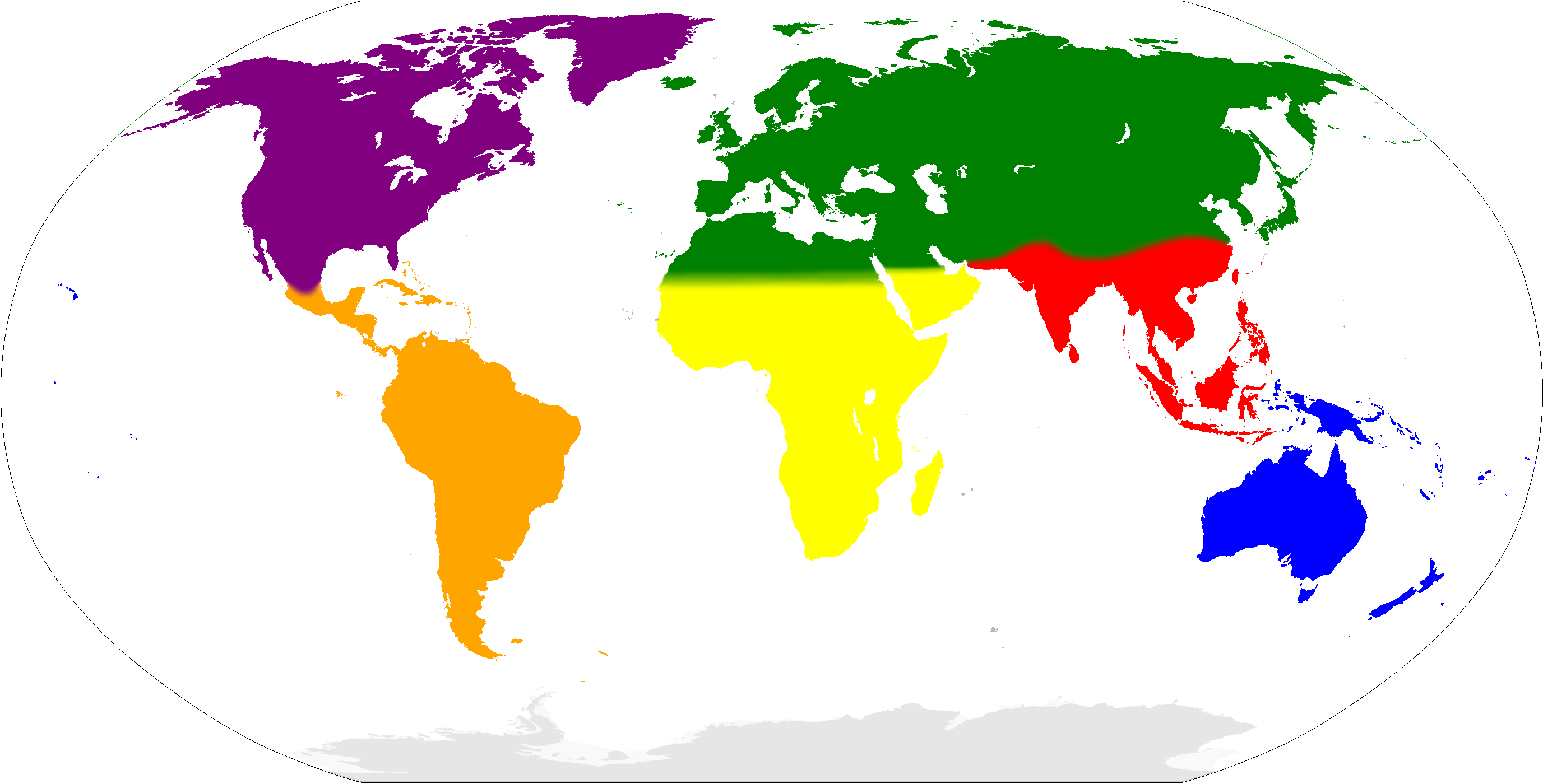 Biogeographic regions of the world. Paleoarctic (green), Neoarctic (purple), Ethiopican (yellow), Neotropical (orange), Oriental (red), Australian (blue), Antarctic (grey)